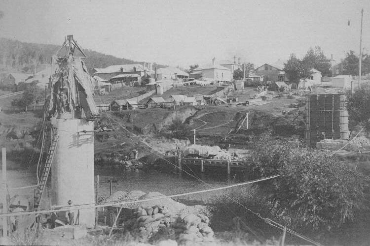 Paterson Railway Bridge, 1910. Source: New South Wales Department of Public Works. Photographs illustrating report for 1909–1910. No. 2 - "North Coast Railway. Bridge over the Paterson River". Published 1909–1910. Copy available in the State Library of New South Wales, among other places: see here or else search the PICMAN database (a copy is not available online).